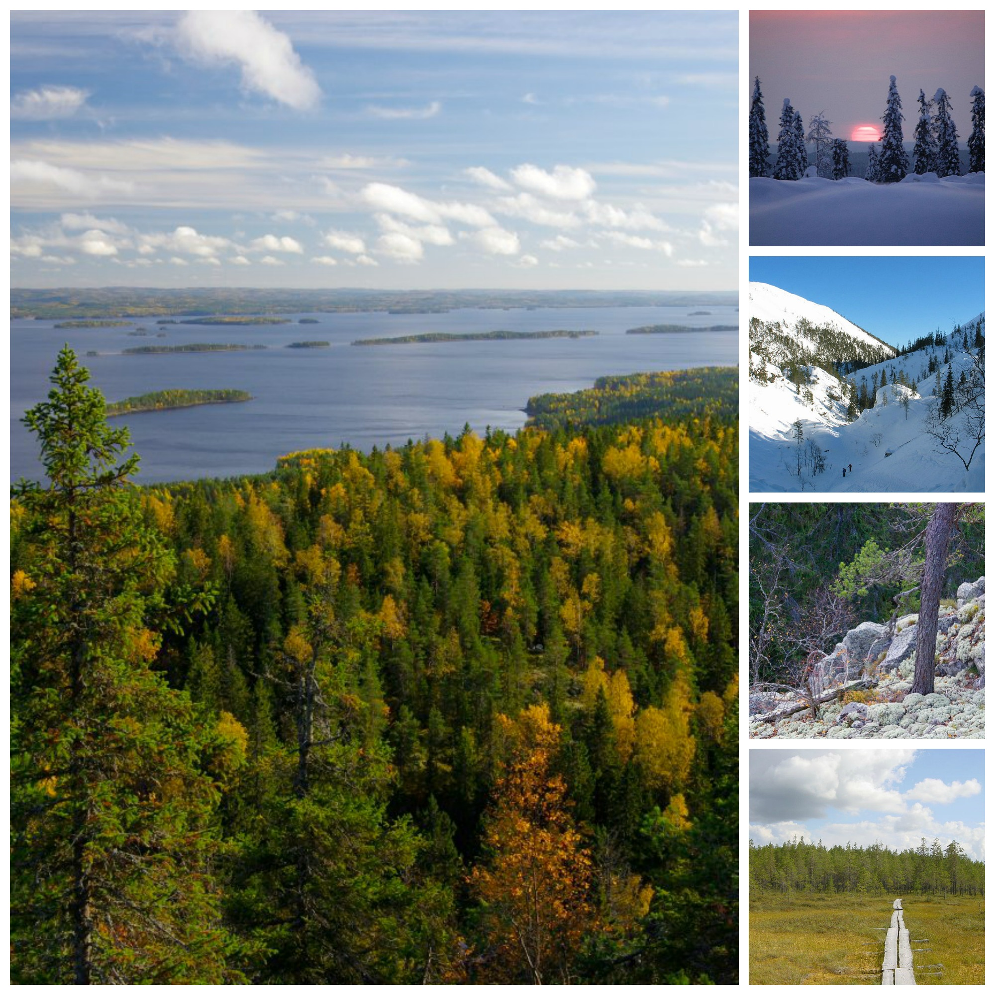 Collage of photos from national parks in Finland: Näkymä Ukko-Kolilta Pieliselle - Kansallismaisemaa.jpg from Koli Sunset in Kainuu, Finland.jpg from Paltamo Jäkälää_ja_kalliota_Kolilla.jpg from Koli Patvinsuo pitkospuut.jpg from Patvinsuo Isokuru.JPG from Pyhä-Luosto All original photos from Wikimedia Commons